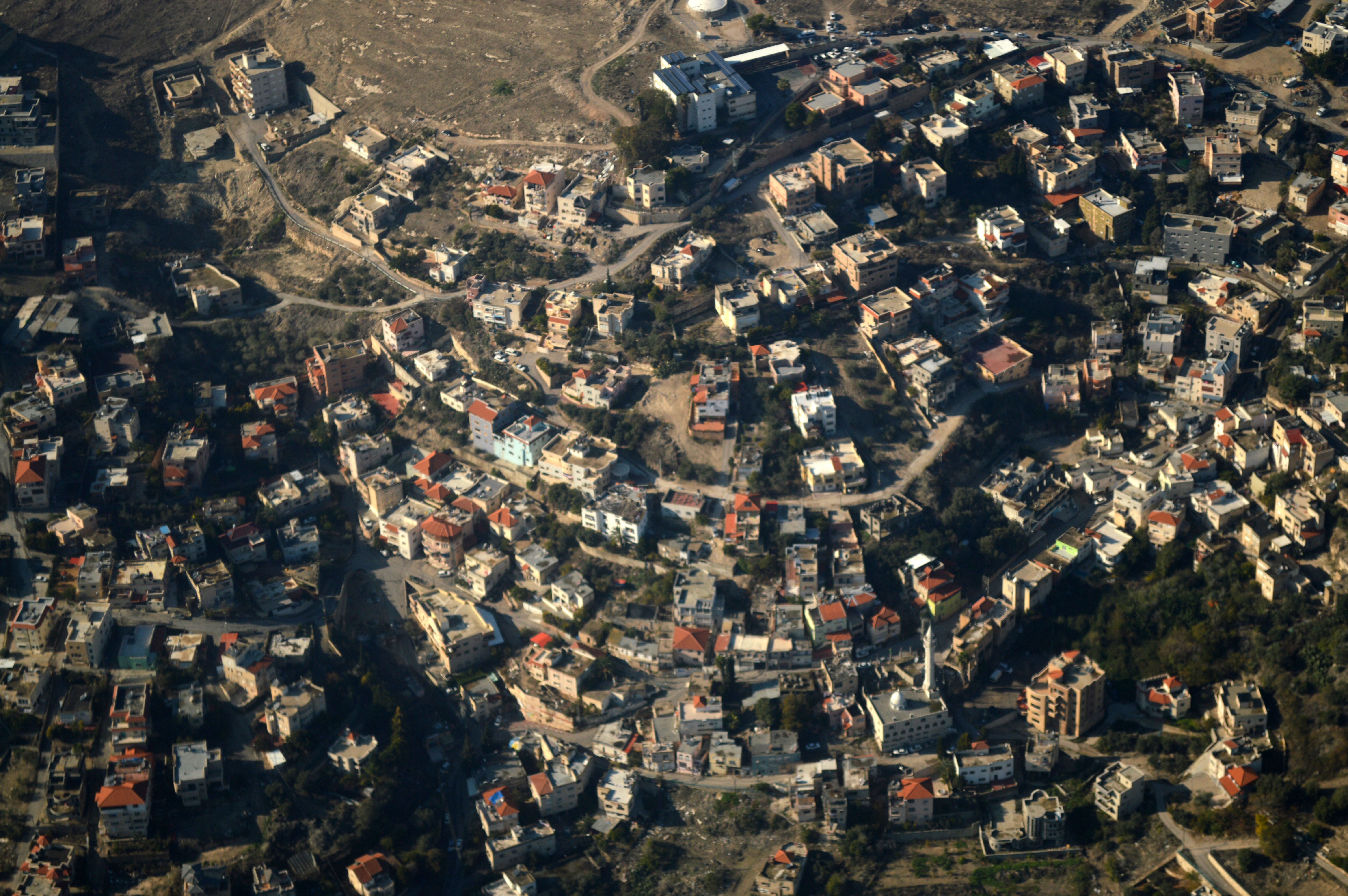 Aerial View of Israel